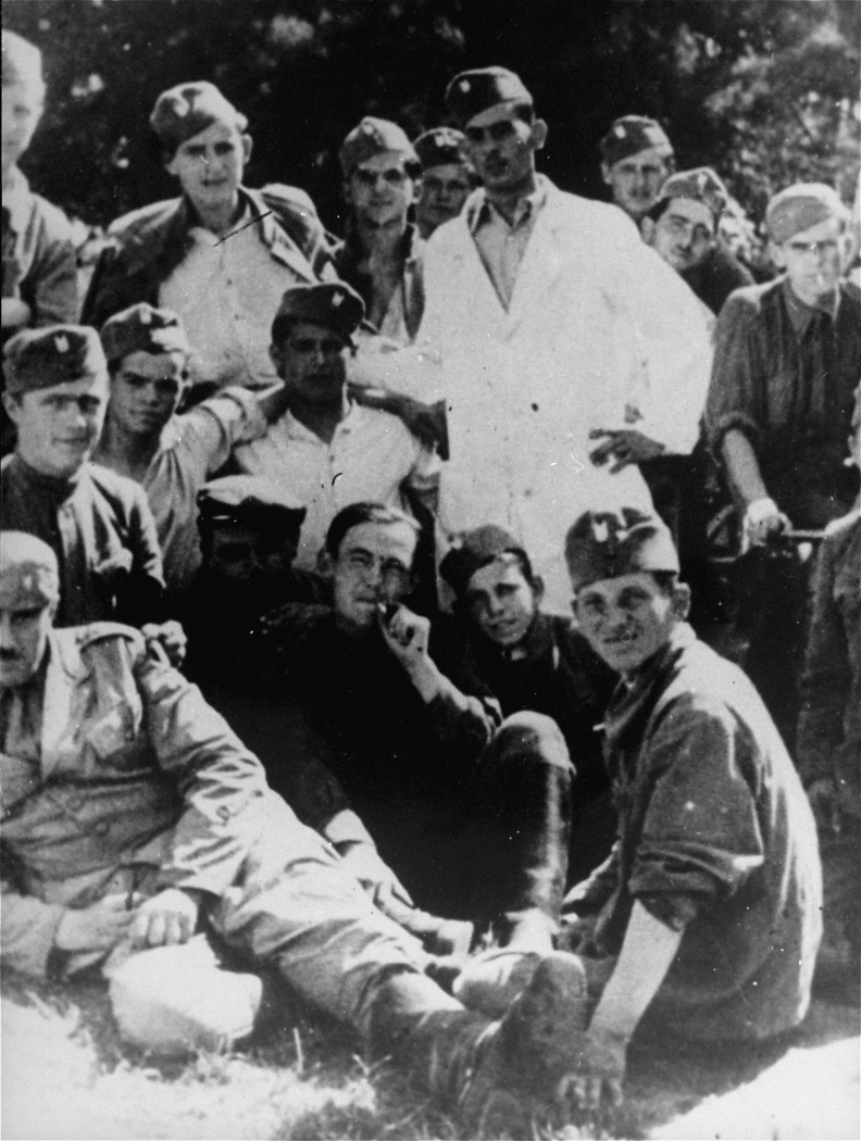 Ustasa guards in the Jasenovac concentration camp.